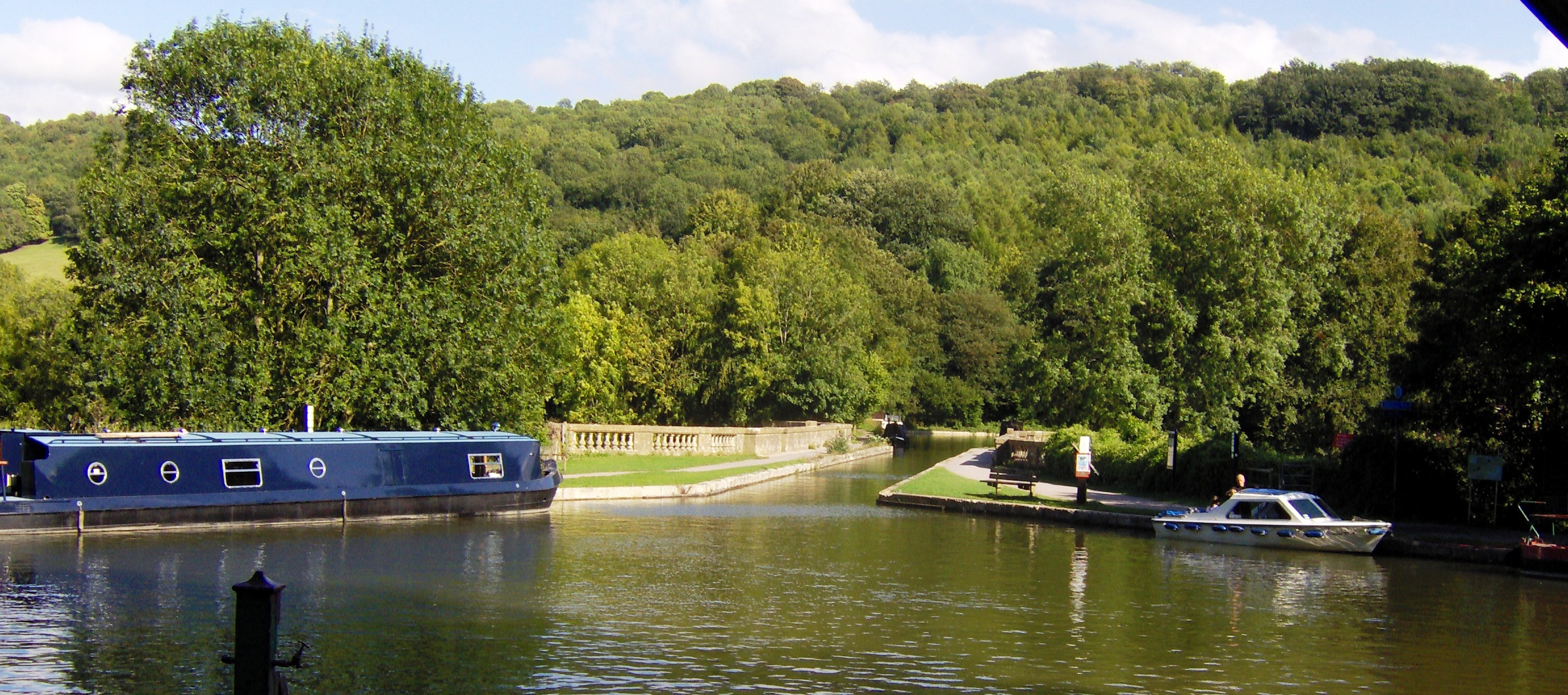 Dundas Aqueduct (from western end) taken by Rod Ward Sept 2006.